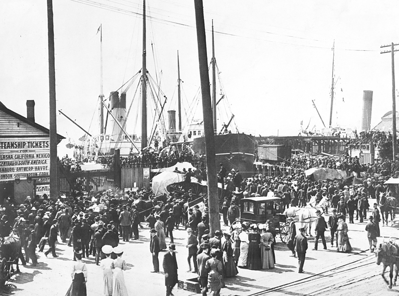 The Seattle, Washington waterfront during the Klondike Gold Rush in 1897.